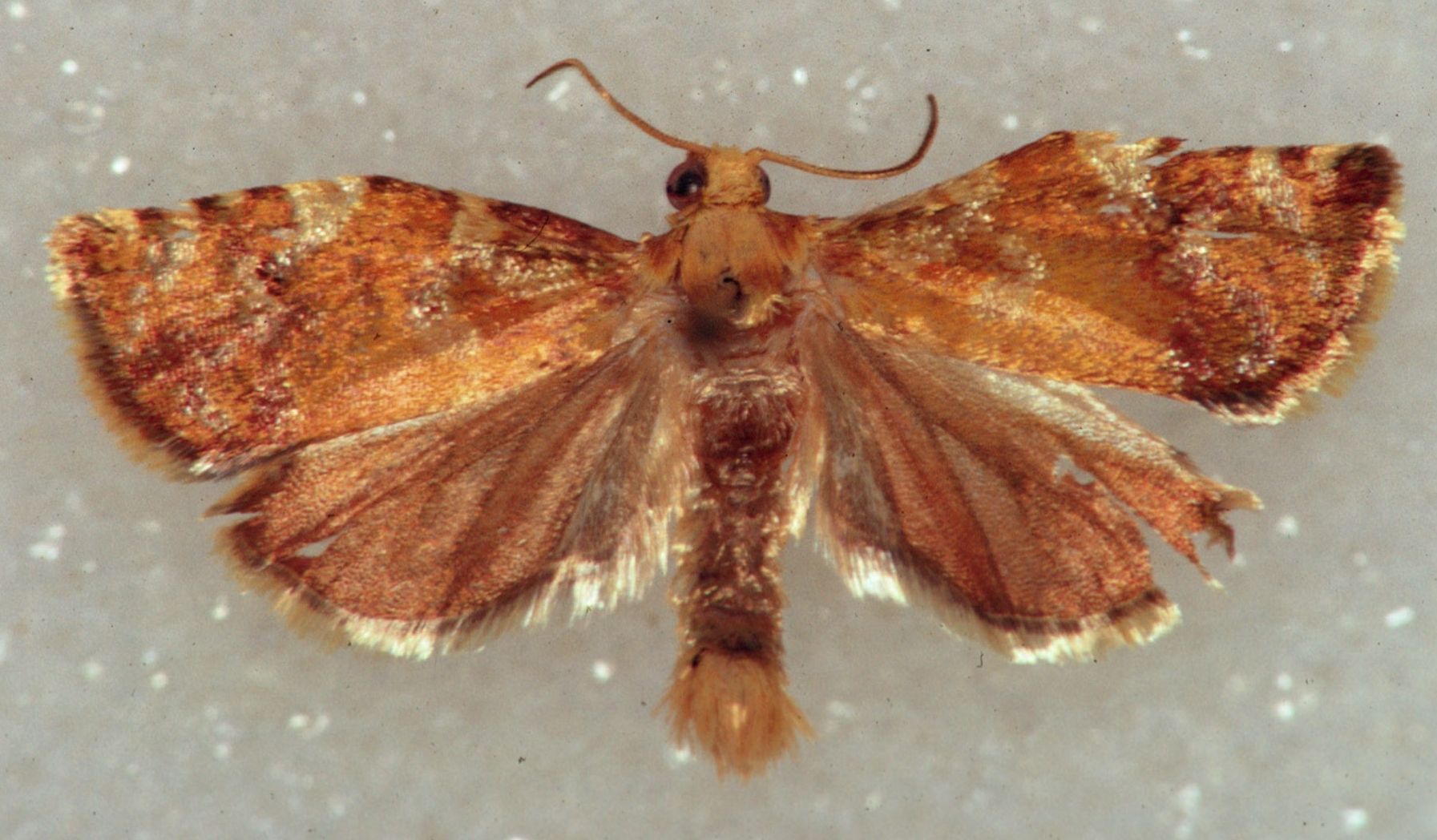 Oak leaf roller, Archips semiferanus, larva on damaged red oak leaves